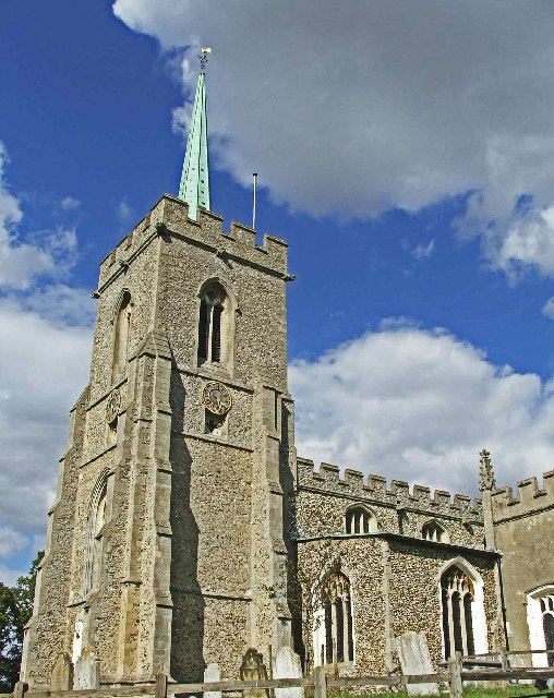 Braughing Parish Church. Braughing, with Hitchin and Welwyn, was one of the original Minster churches of East Hertfordshire. Teams of priests lived communally in these centres, going out to preach the Gospel in the surrounding villages. The parish system, with a church in each village, developed later. It is not known if the Minster stood on the same site as the present church. According to a Charter dated about 825, Braughing church was at that time dedicated to St Andrew. A new church in Braughing was consecrated in 1220, and parts of our present building date from that time, with other sections from the fifteenth century.